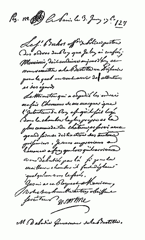 Letter de cachet, 1759, by Antoine de Sartine